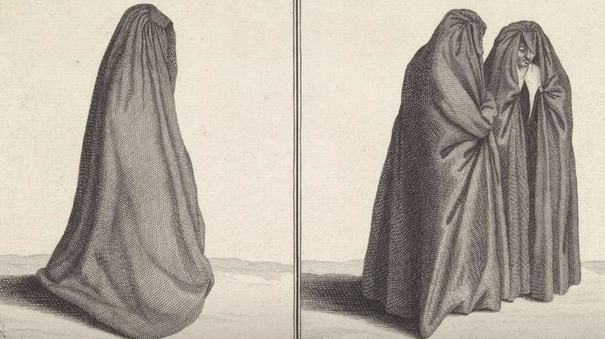 Huik, Mourning dress